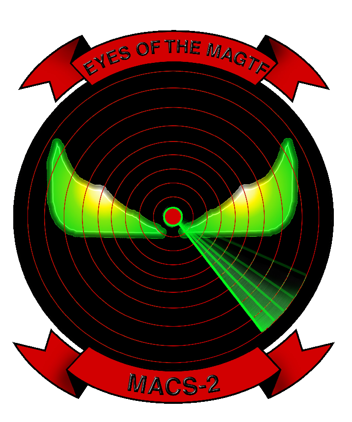 A much higher quality version of the MACS-2 Insignia